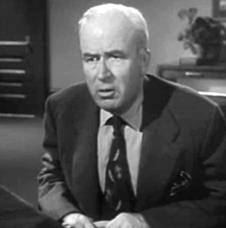 Harry Shannon in The Jackie Robinson Story - cropped screenshot